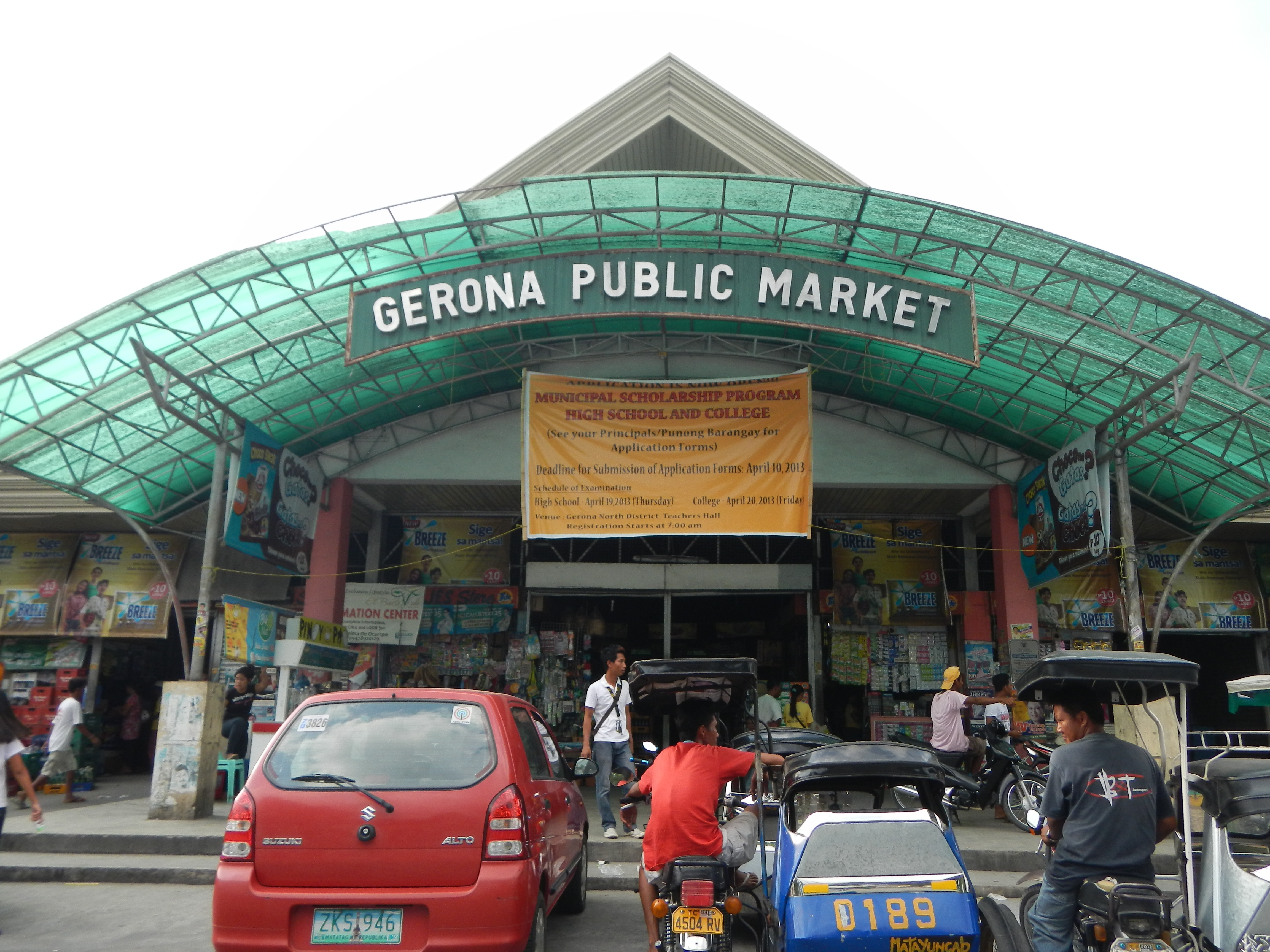 Gerona, Tarlac[1]Gerona is a first-class municipality in the province of Tarlac, Philippines. According to the 2010 census, it has a population of 83,084 people. The MacArthur Highway goes through the center of the town. Gerona has a land area of 12,889 hectares (31,850 acres) of plain and rugged agricultural land representing 4.63% of the province total area. The Tarlac River, which originates from the eastern slopes of the Zambales Mountain, cuts across the west central areas, dividing the town into two parts.[2]Area: 128.89 km² ZIP Code: 2302[3]The history of the Municipality of Gerona can be traced back during the reign of the Spaniards, when the Dominican Missionaries in the Philippines started to propagate the Catholic faith in the whole archipelago in 1704.[4]This place is situated in Tarlac, Region 3, Philippines, its geographical coordinates are 15° 36' 23" North, 120° 36' 0" East and its original name (with diacritics) is Gerona. original name: Gerona - geographical location: Tarlac, Region 3, Philippines, Asia geographical coordinates: 15° 36' 23" North, 120° 36' 0" East[5]Isdaan Floating Restaurant